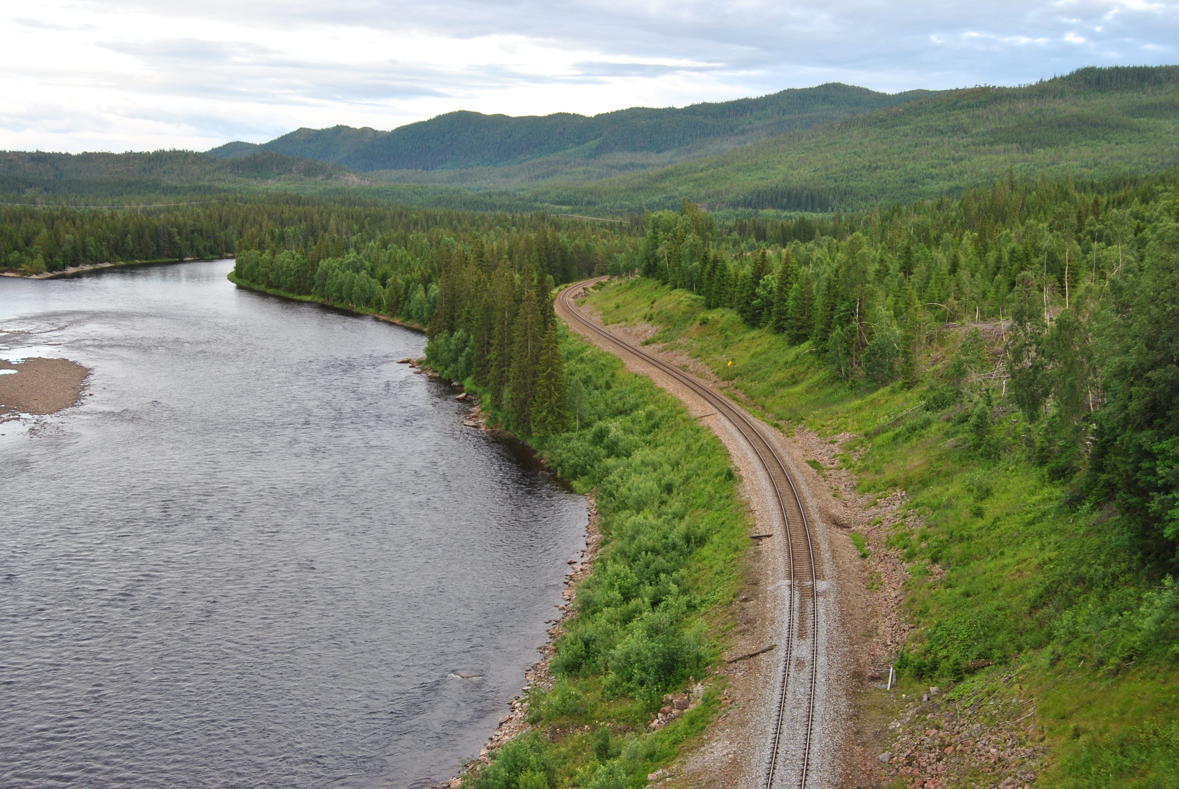 The Nordland Line and Sandøla at Formofoss, as seen from the bridge on National Road 74